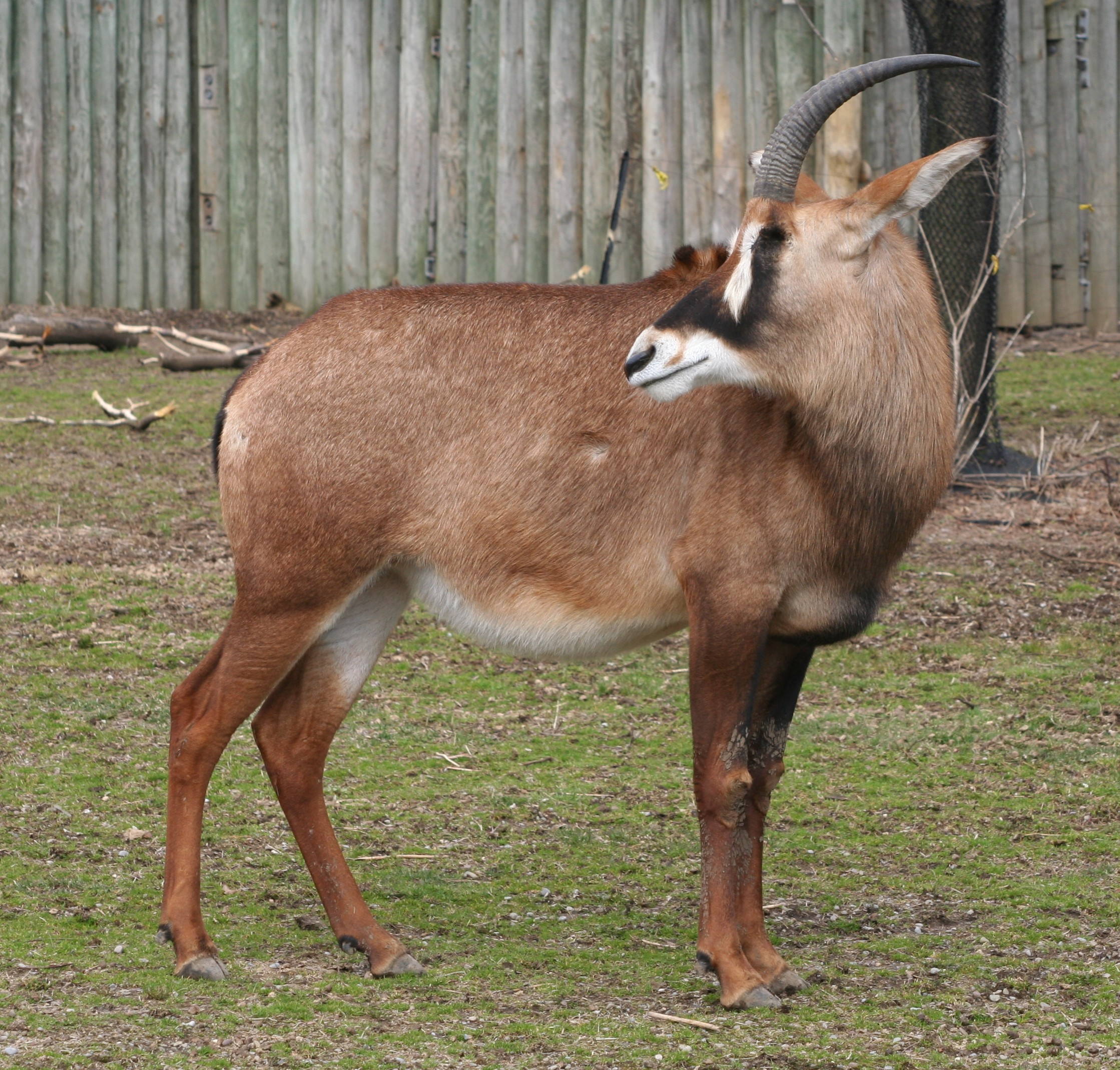 Roan Antelope (Hippotragus equinus cottoni) at the Buffalo Zoo